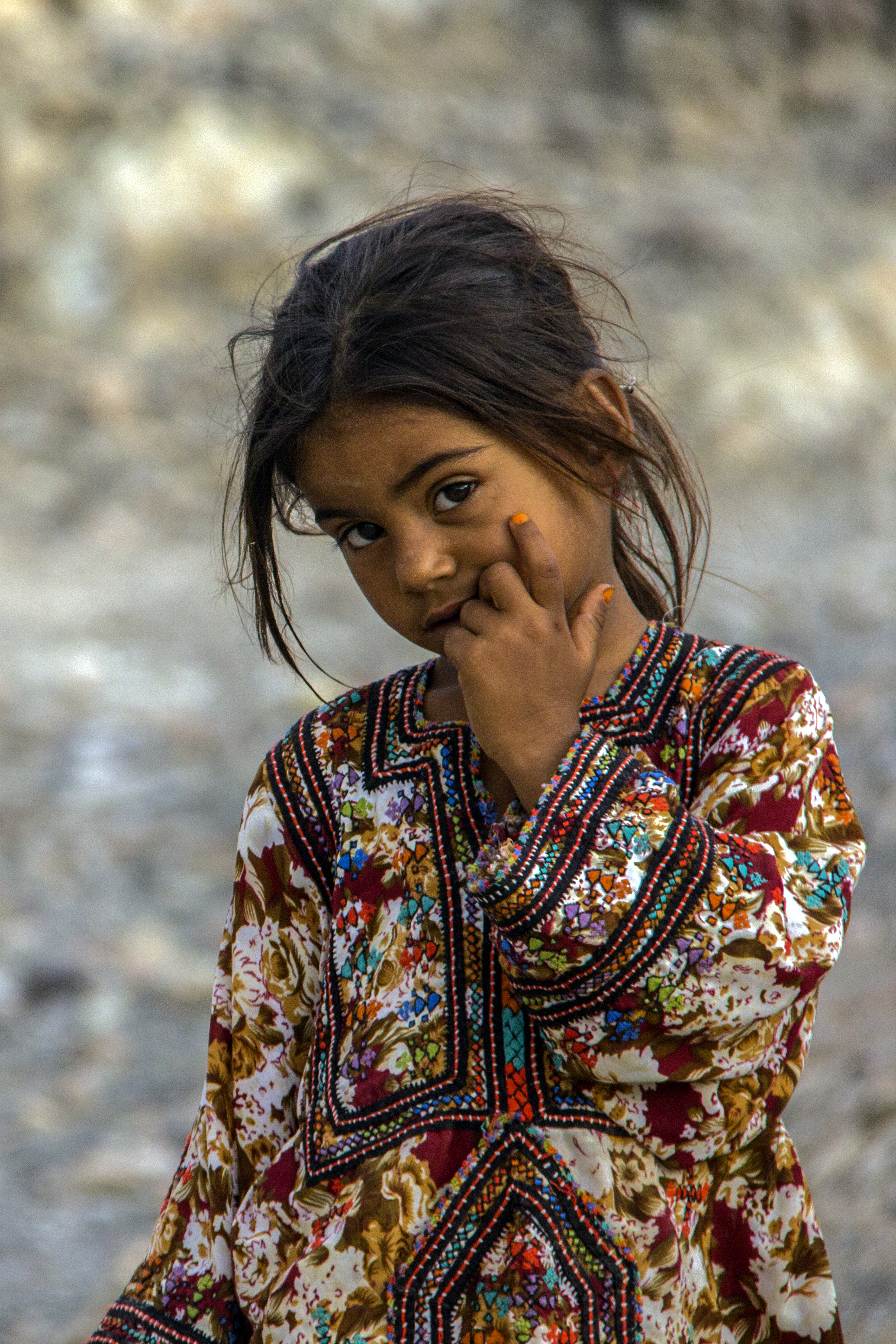 Biologically, a child (plural: children) is a human being between the stages of birth and puberty.